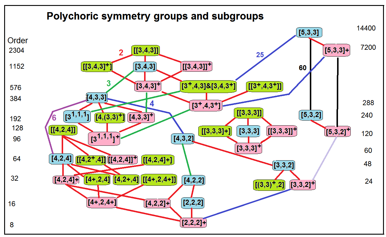 4D points groups in Coxeter notation